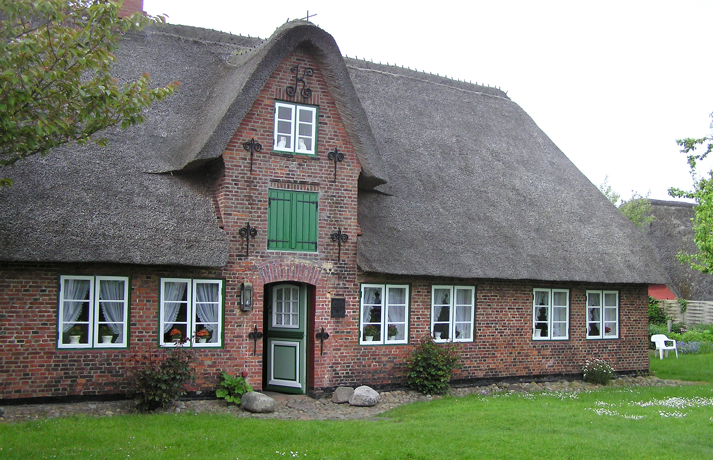 Haus in Nebel on the island of Amrum in the German region of North Frisia